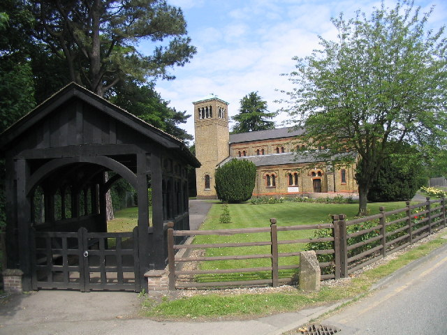 The Essex Regiment Chapel, Warley, Essex. Now referred to as the Anglian and Essex Regiment Chapel - situated alongside the old Warley Barracks.